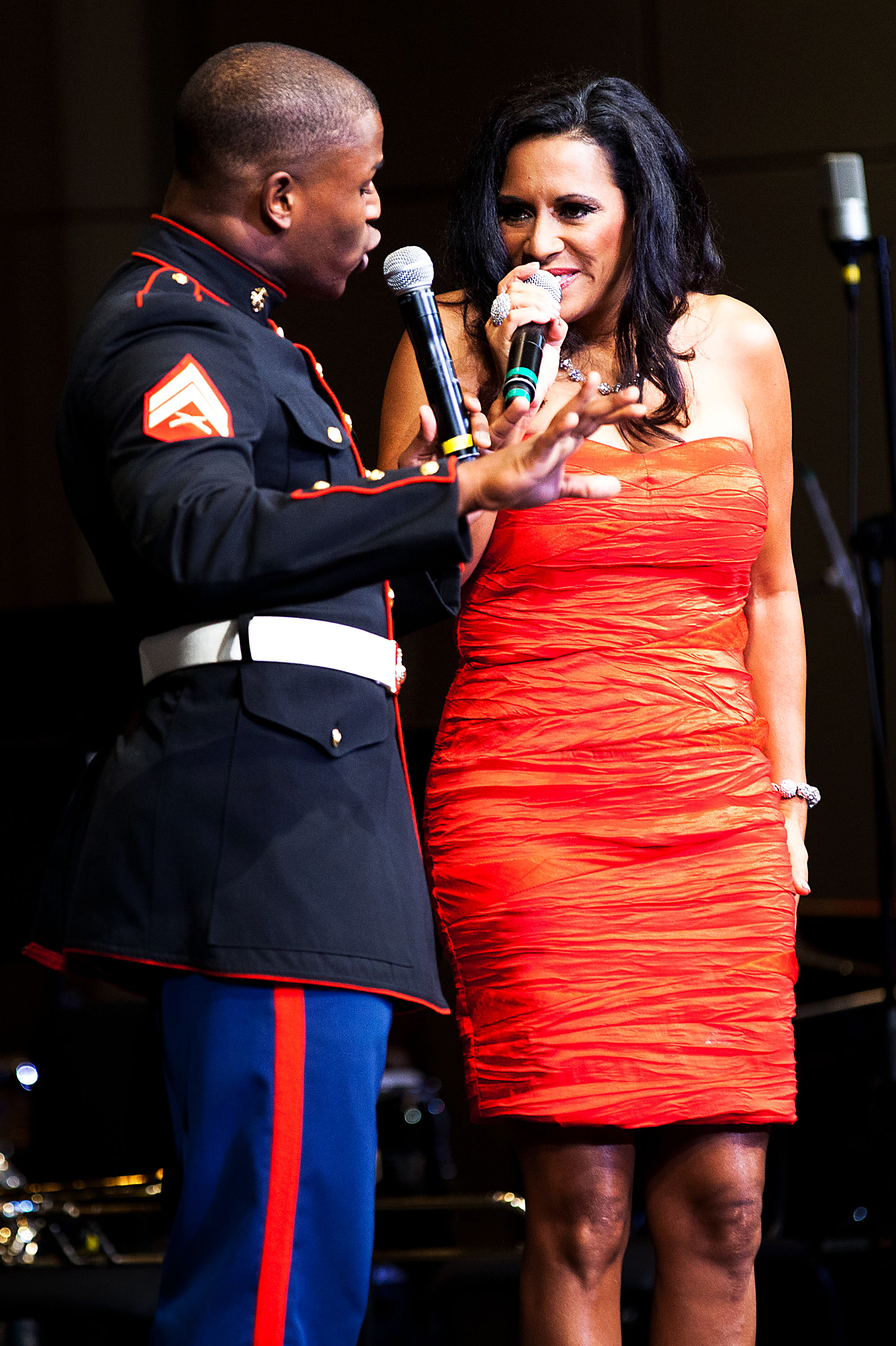 Cpl. Jeremy Catledge, trombone player for U.S. Marine Corps Forces, Pacific Band, and guest entertainer Ginai sing “Baby It’s Cold Outside” at the Fourth Annual Na Mele o na Keiki (Music for the Children) Holiday Concert at the Blaisdell Center here Dec. 1. The concert showcased guest artists including Jim Nabors, Henry Kapono and many others.